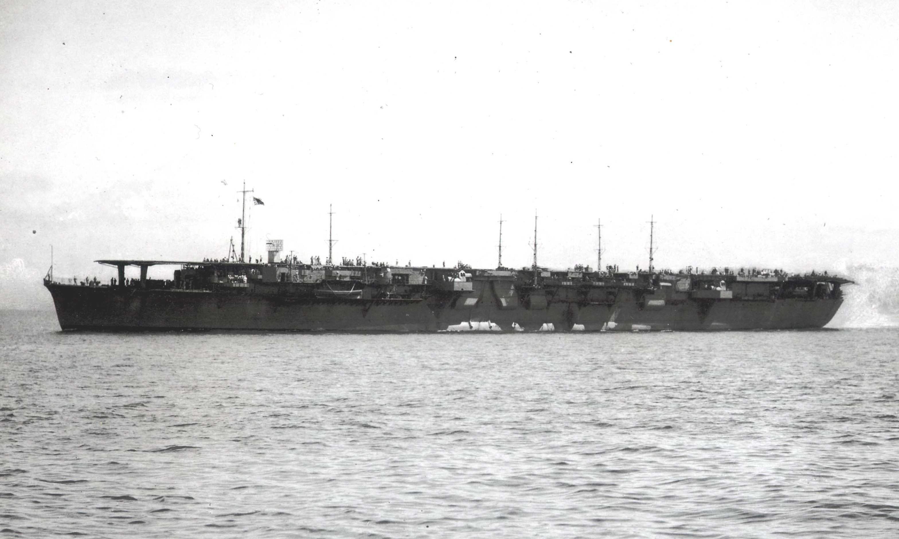 日本海軍航空母艦千歳型「千歳」公試の為に佐世保軍港から出航中の写真。 Chitose, Imperial Japanese Navy's aircraft career